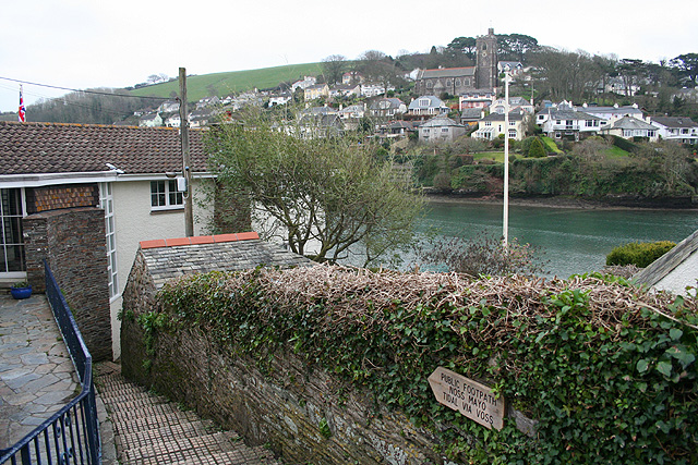 Newton and Noss: towards Noss Mayo Seen from Newton Ferrers. The path leads to a tidal crossing of Newton Creek. Looking south east